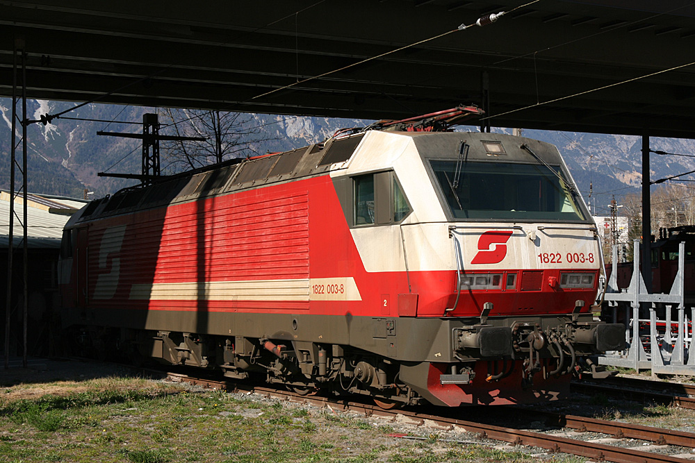 An ÖBB class 1822 locomotive in Innsbruck